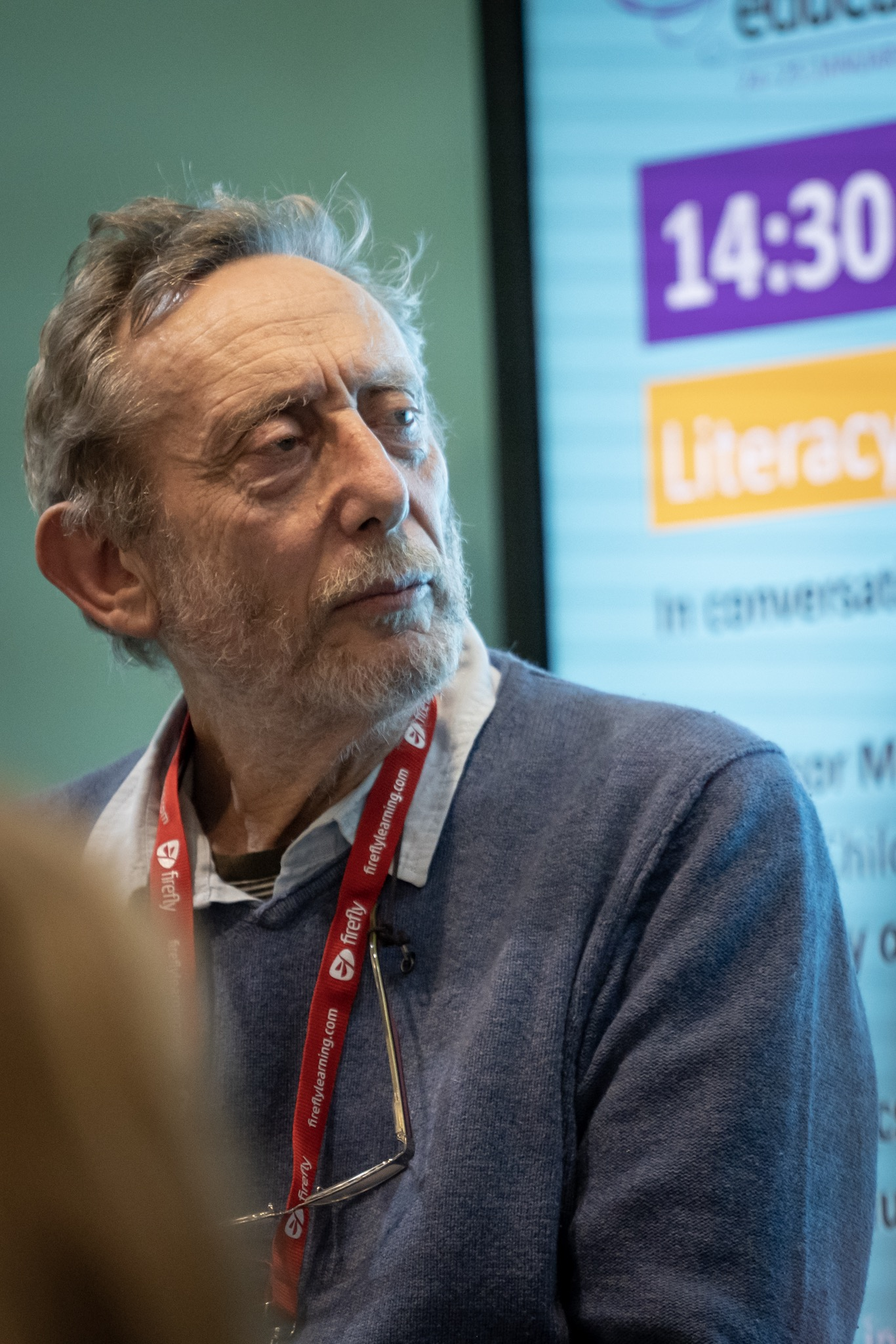 Michael Rosen in 2019